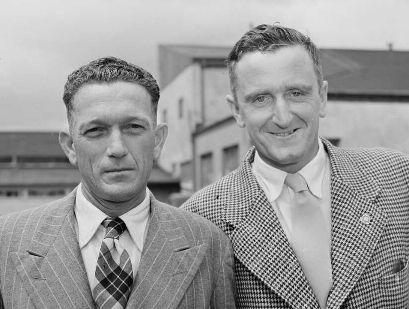 Members of the Australian Cricket Team, Iverson and Tallon, photographed in 1950 by an Evening Post photographer.